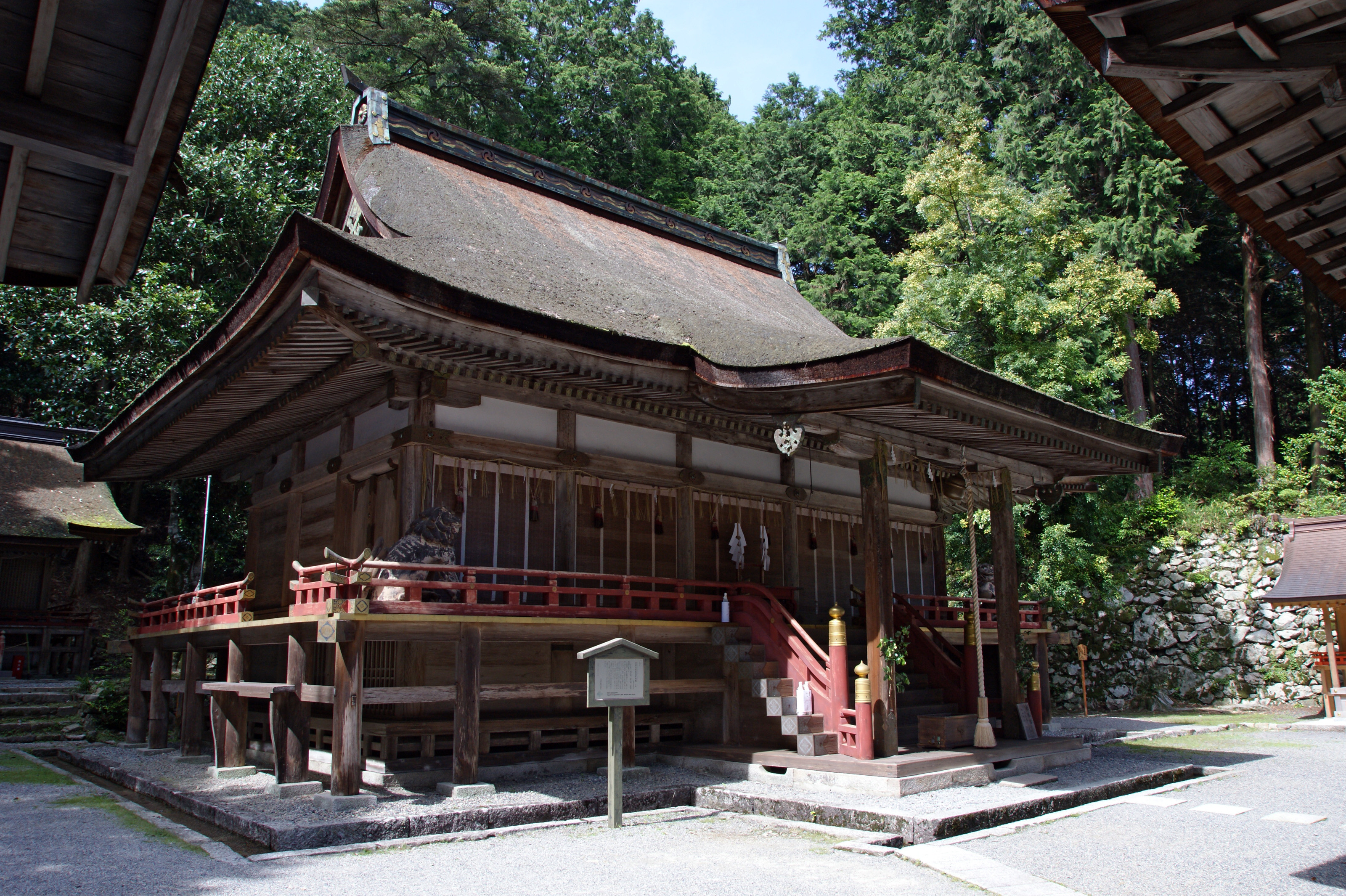 Hiyoshi Taisha in Otsu, Shiga prefecture, Japan